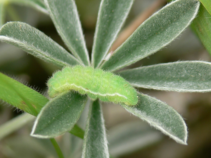 Mission blue butterfly - (Aricia icarioides missionensis’’. This image of a Mission Blue larvae was taken at Twin Peaks, Mission Ridge near San Francisco, California.